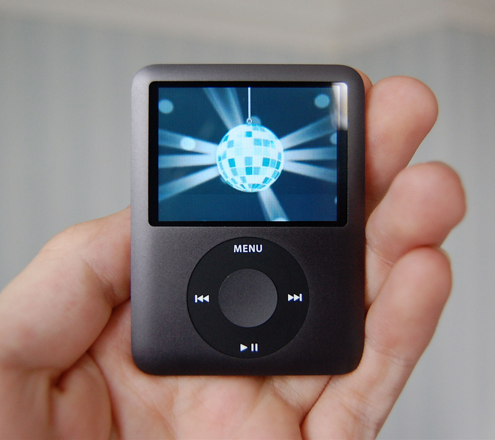 Of course I snapped myself up a 3rd Gen iPod as soon as I could. Video, games and a tasty new interface plus it's really tiny (about 1cm wider than 2G and 2cm shorter) Love it to bits, now I just need to re-encode all over my video to work on it!